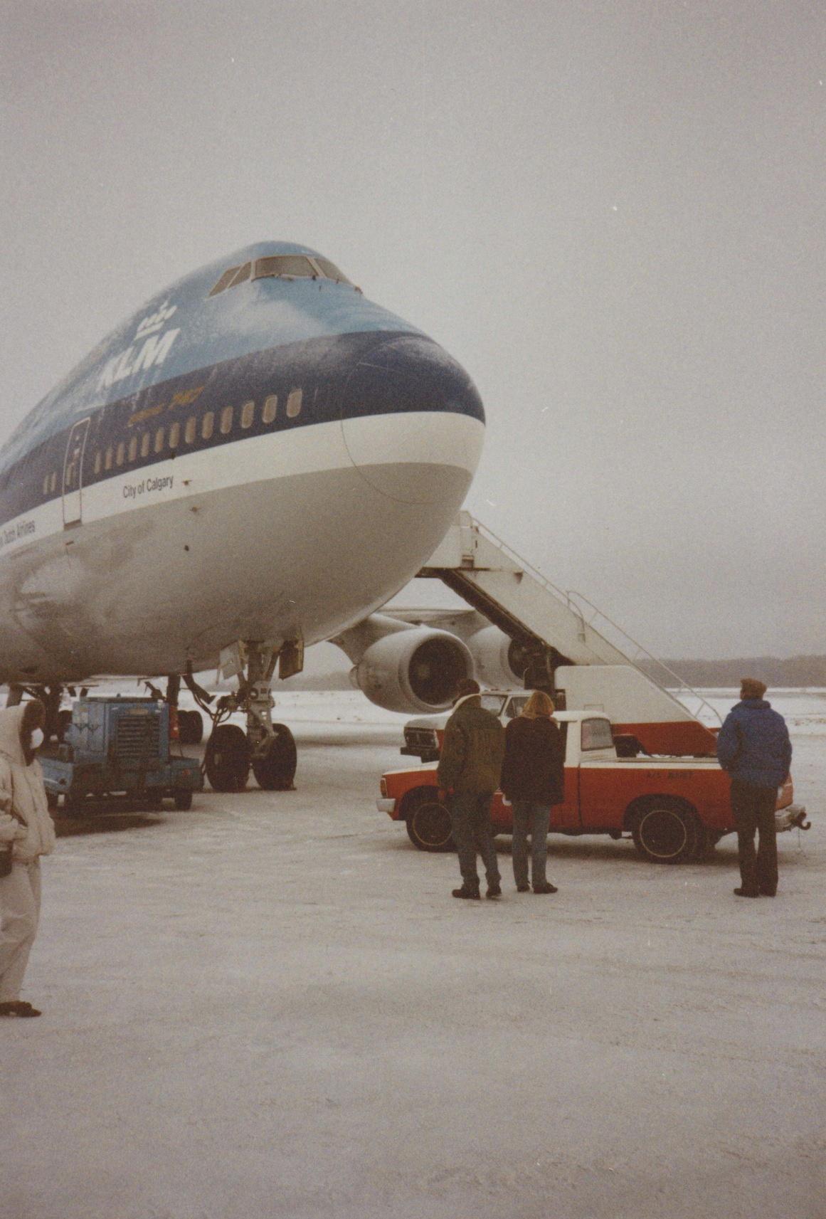 The Crew of KL 867 inspecting the damage of their Boeing 747-406M (Registration PH-BFC) which encountered the ash cloud from Mt Redoubt in Alaska in December 1989